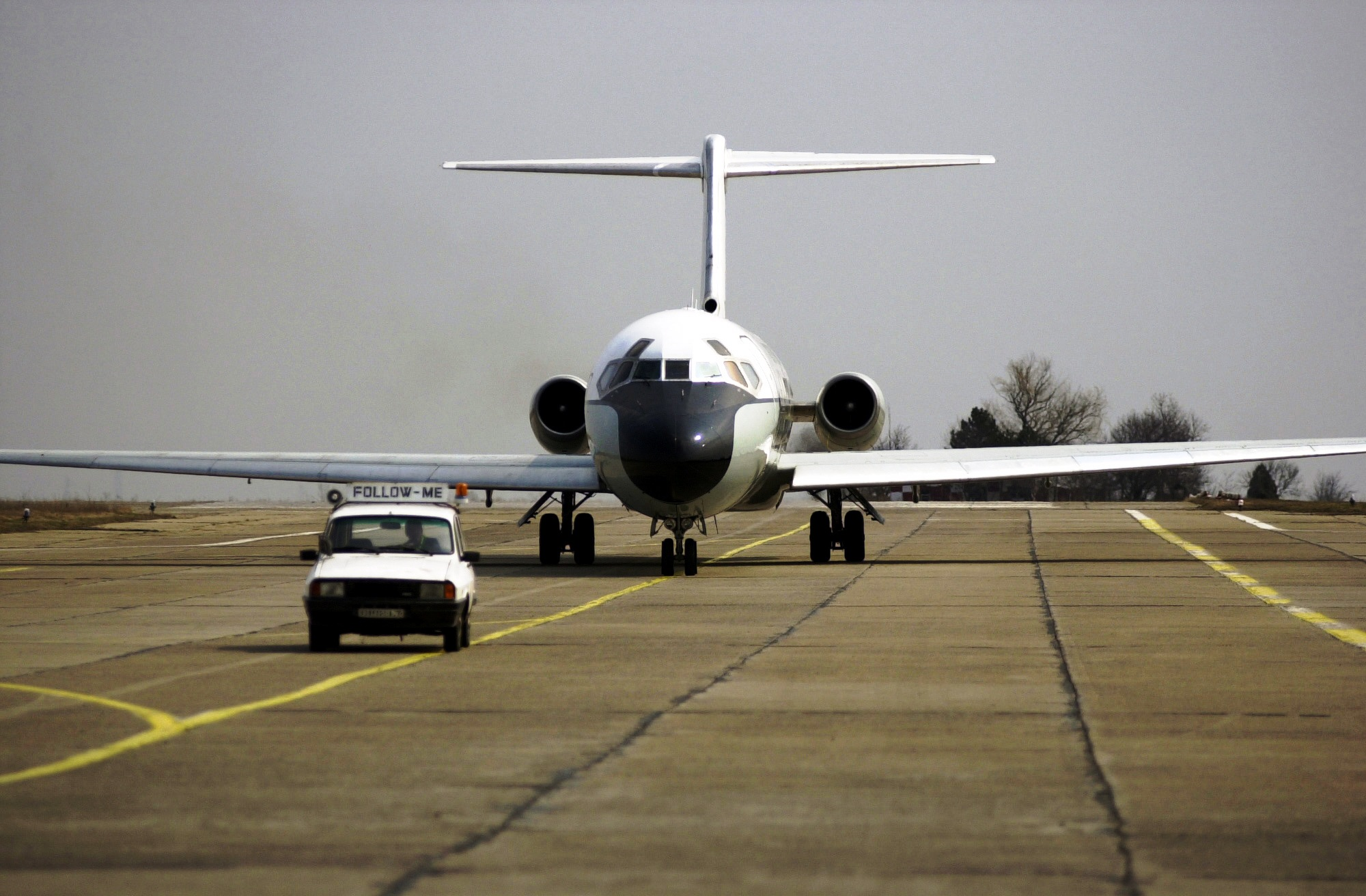 A US Air Force C-9 Nightingale aircraft assigned to the 458th Air Expeditionary Group, taxies behind a flight line vehicle after arriving at Mihail Kogalniceanu Air Base, Romania.